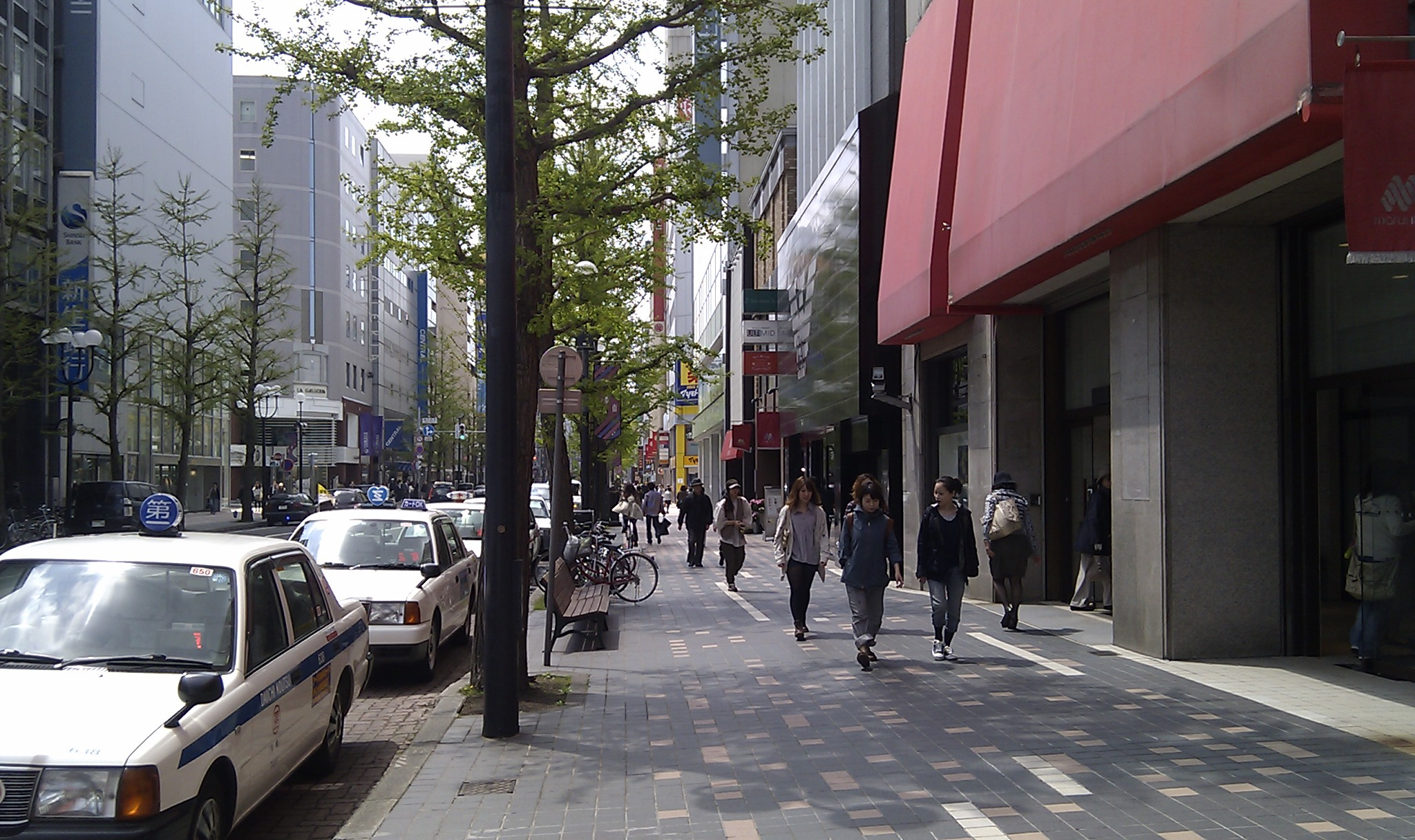 Minami 1 Jonishi, Chuo Ward, Sapporo, Hokkaido Prefecture 060-0061, Japan